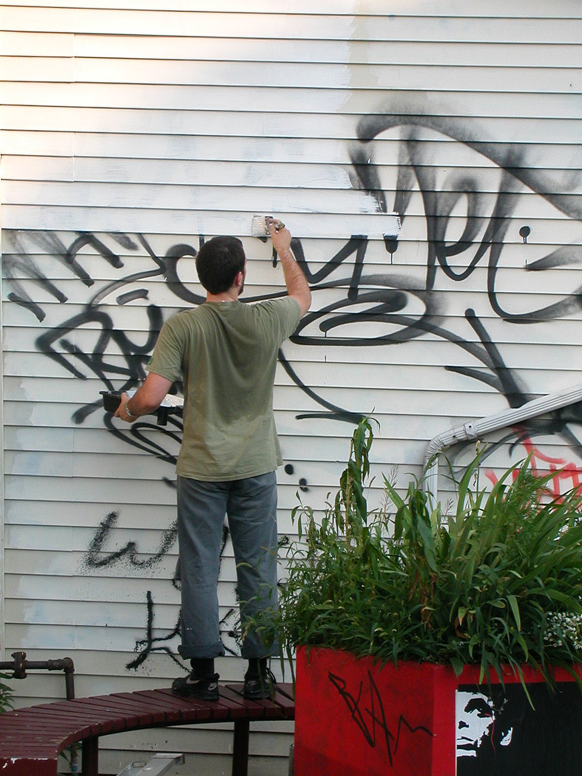 Grafitti artist caught in action